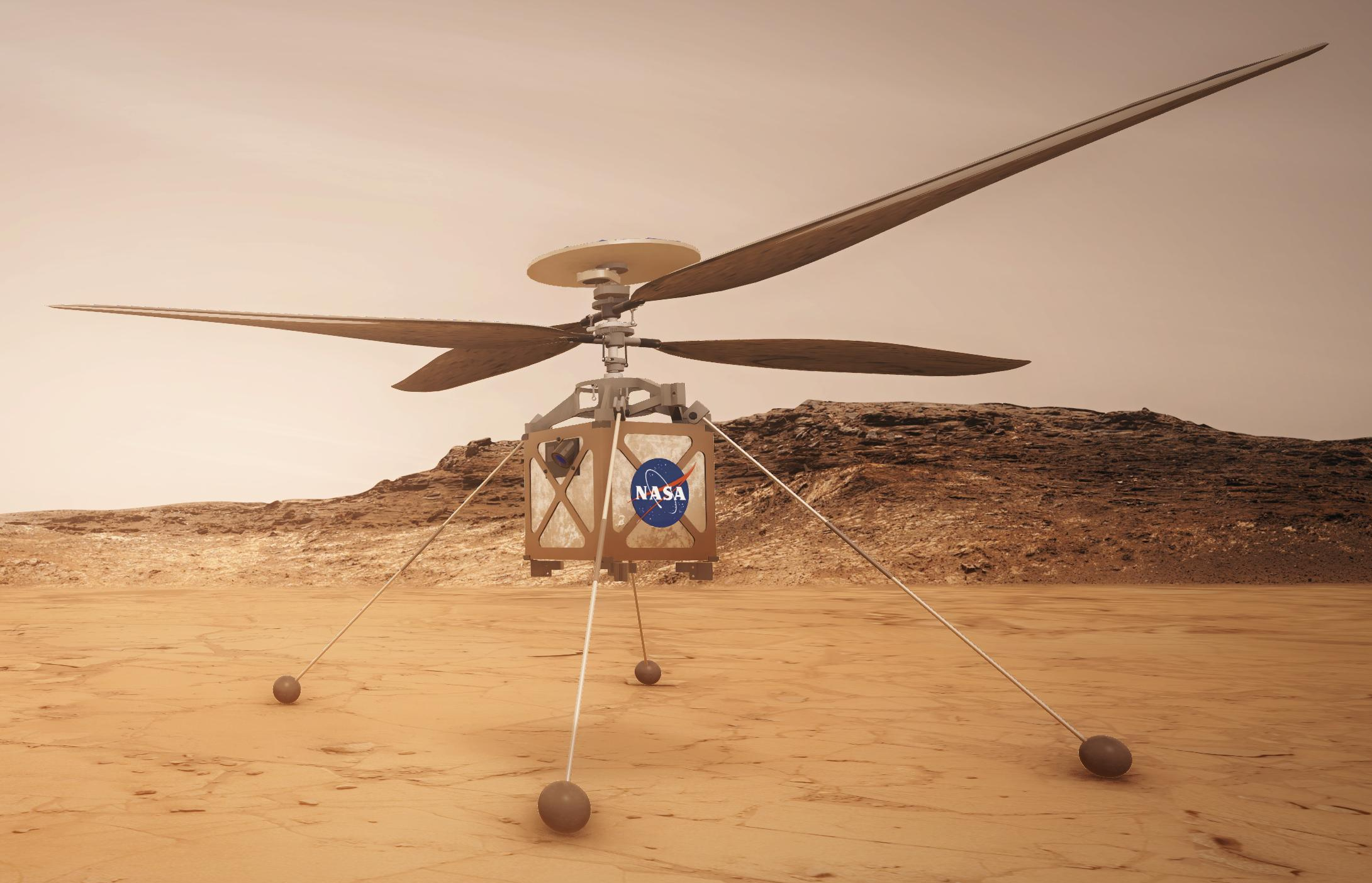 PIA22460: Mars Helicopter (Artist's Concept) This artist concept shows the Mars Helicopter, a small, autonomous rotorcraft, which will travel with NASA's Mars 2020 rover mission, currently scheduled to launch in July 2020, to demonstrate the viability and potential of heavier-than-air vehicles on the Red Planet. NASA's Jet Propulsion Laboratory will build and manage operations of the Mars 2020 rover for the NASA Science Mission Directorate at the agencys headquarters in Washington. For more information about the mission, go to